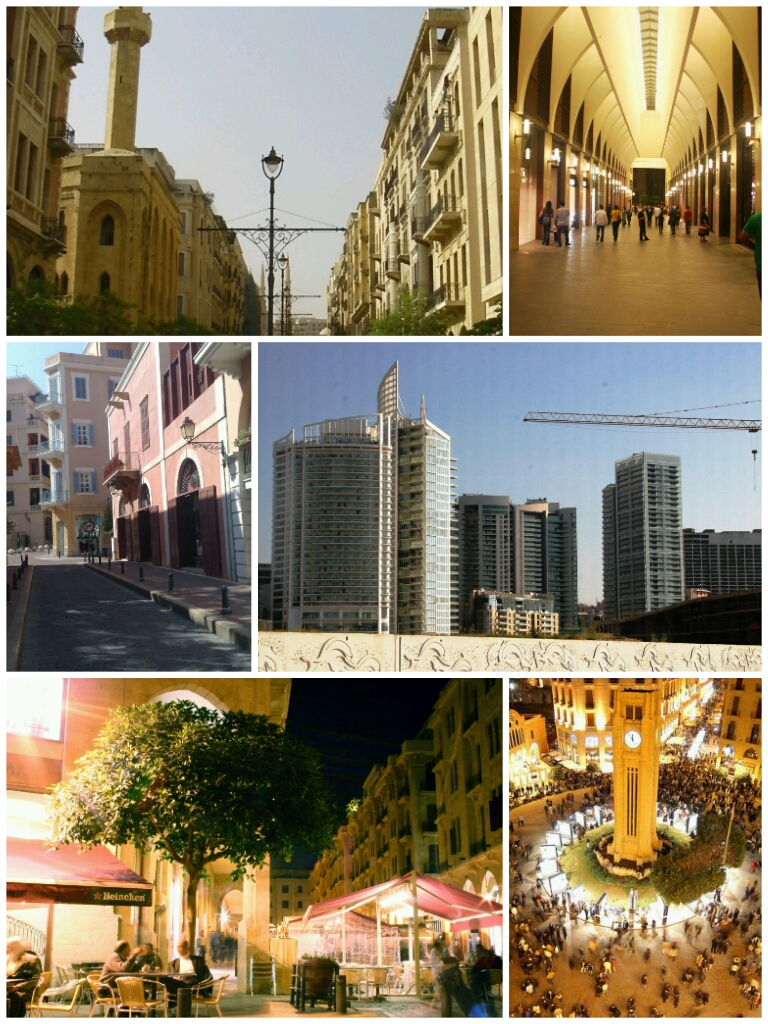 Beirut Central District Collage